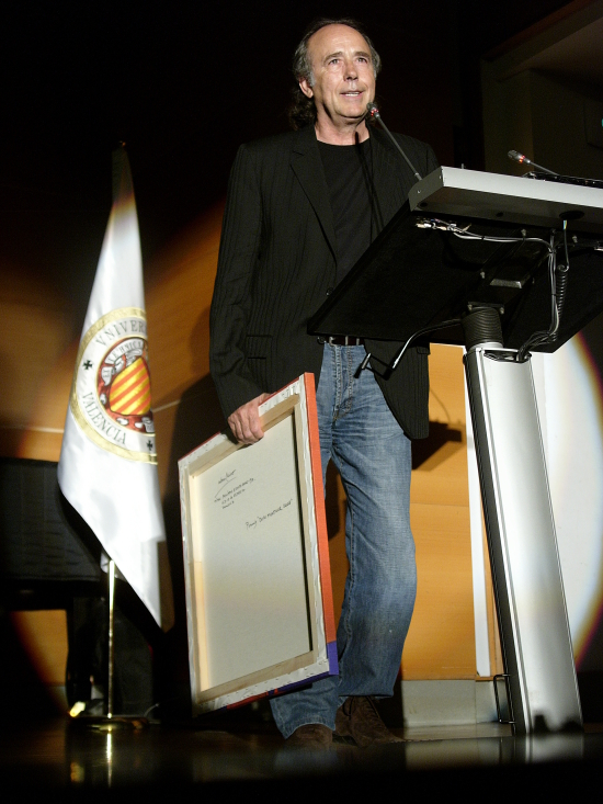 Barcelonese singer-songwriter Joan Manuel Serrat thanking the Ovidi honour awarded to him in València